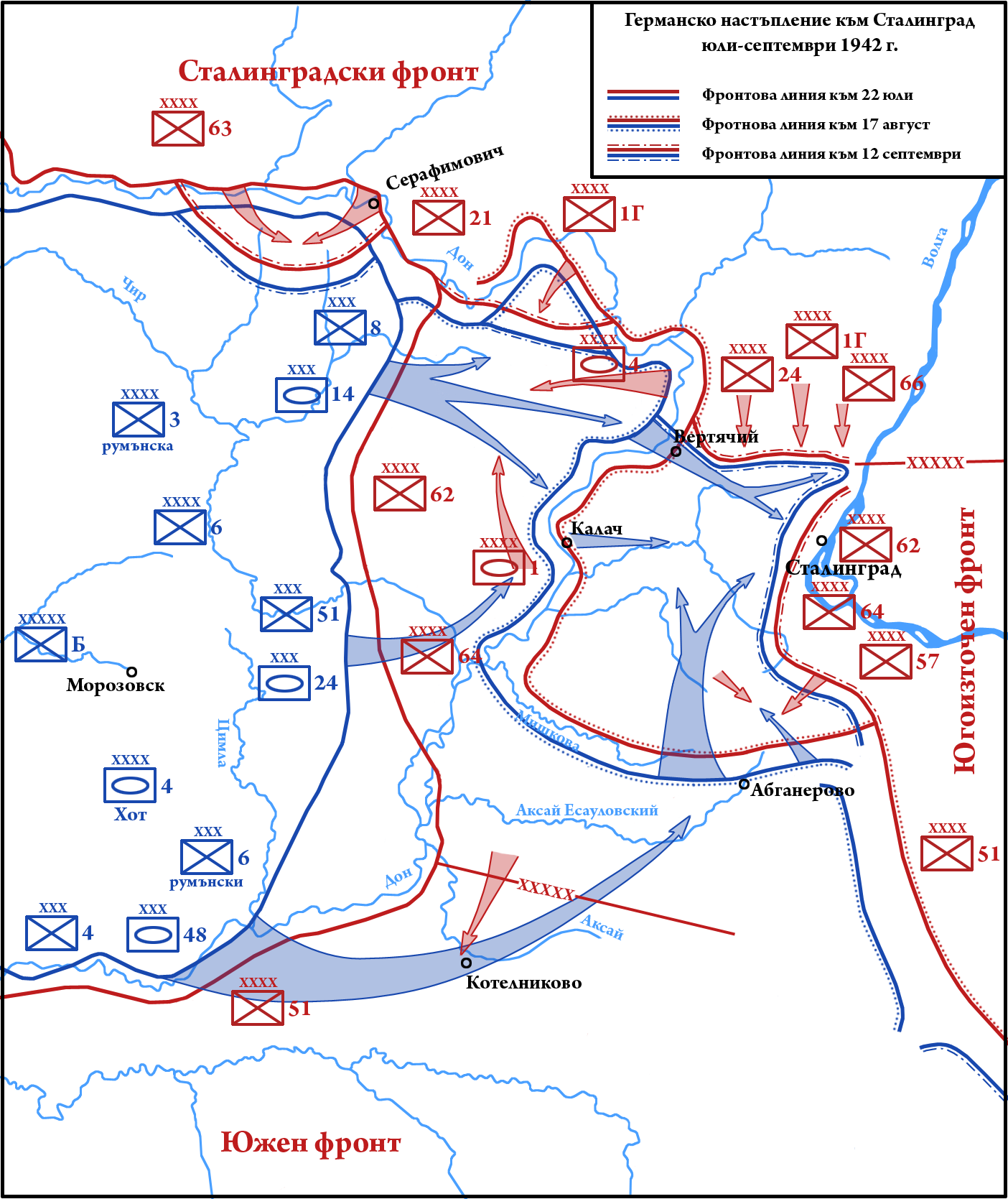 German summer offensive towards Stalindgrad between July and September 1942.